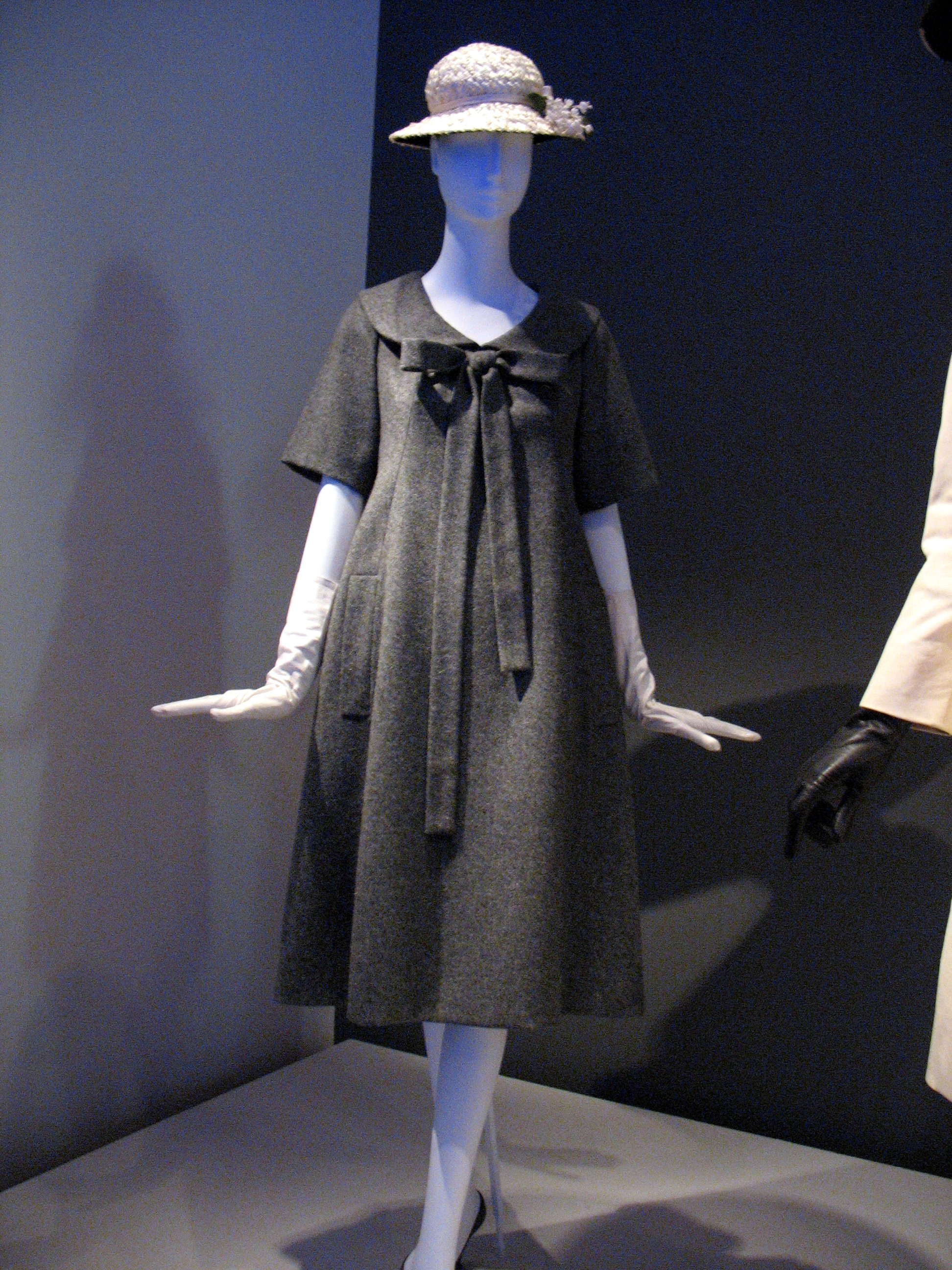 Grey flannel dress designed by Yves Saint Laurent for Dior, 1958. 'Ligne Trapeze' (Trapeze Line). Exhibited at the deYoung Museum in San Francisco